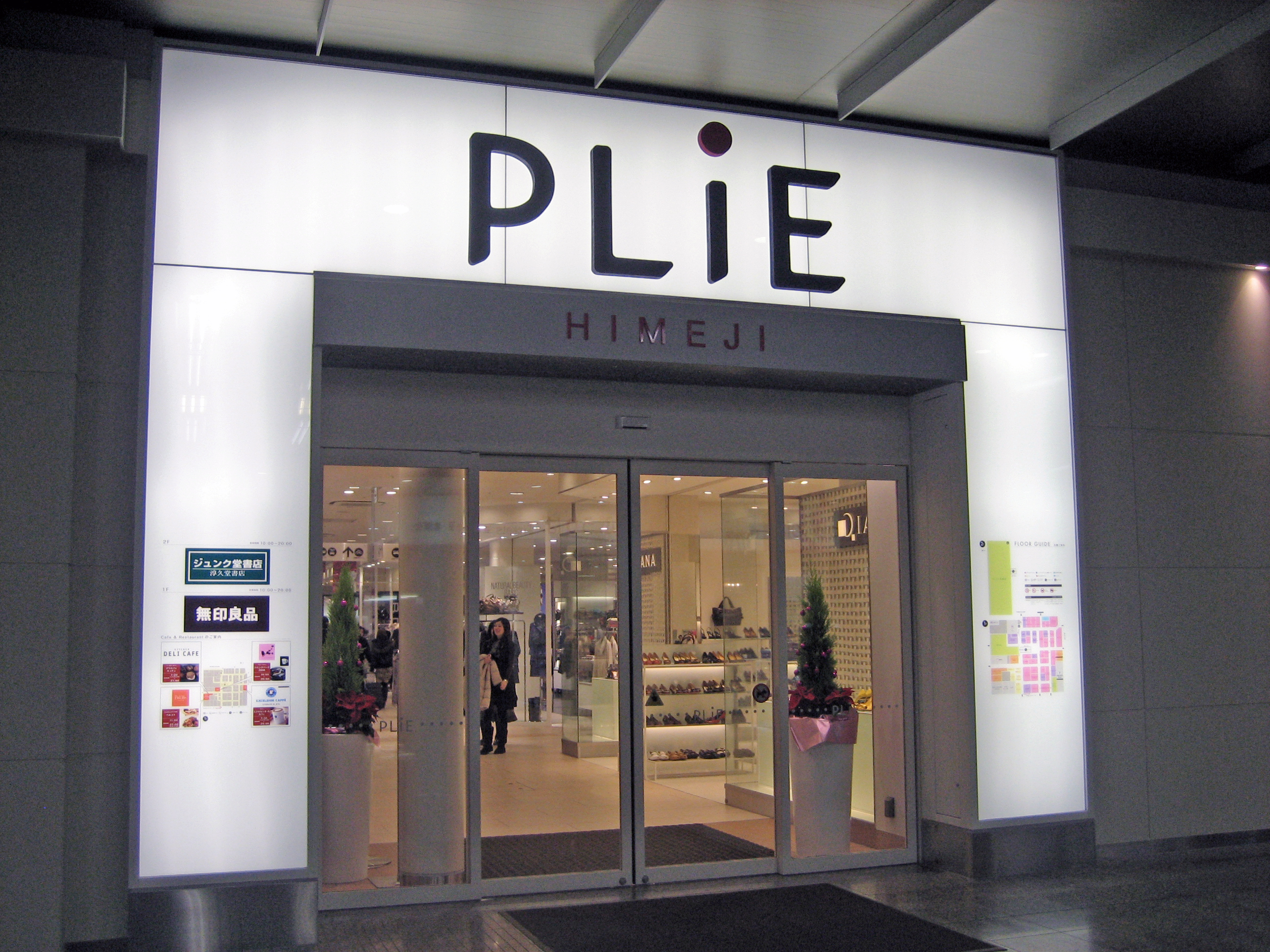 PLiE HIMEJI is a shopping center in Himeji Station.